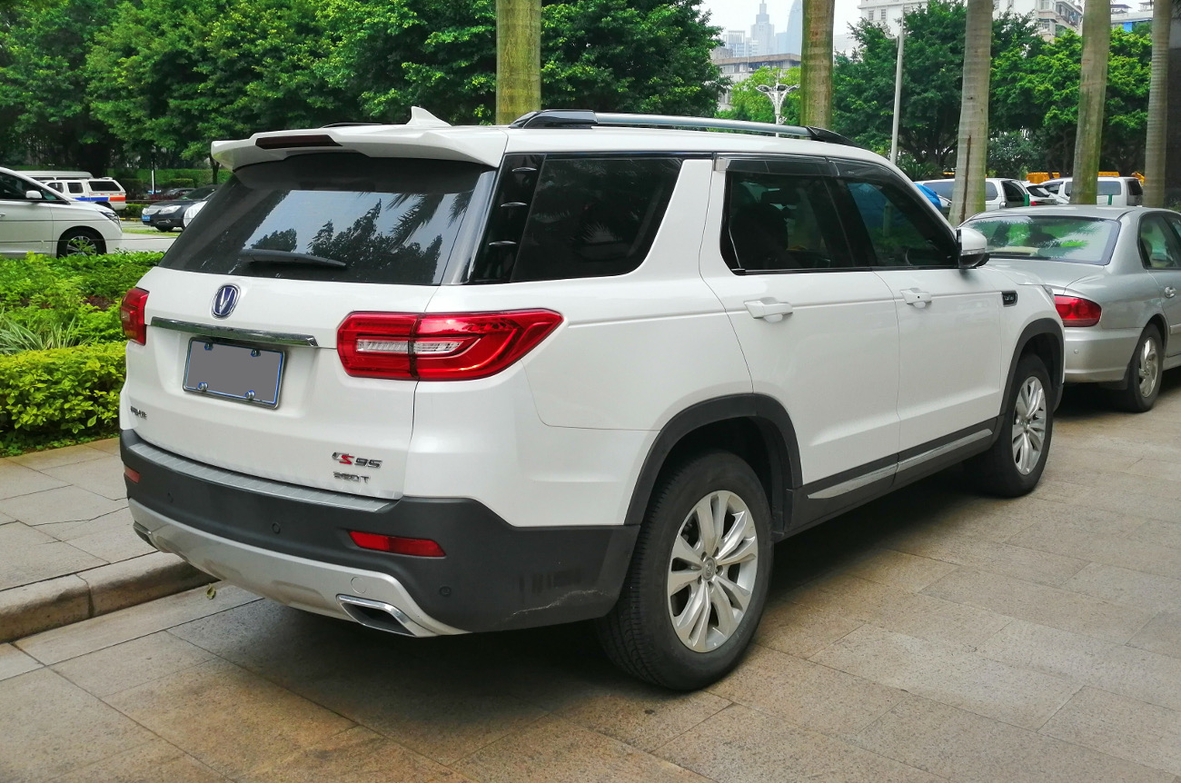 Chang'an CS95 photographed in Guangzhou, Guangdong province, China.